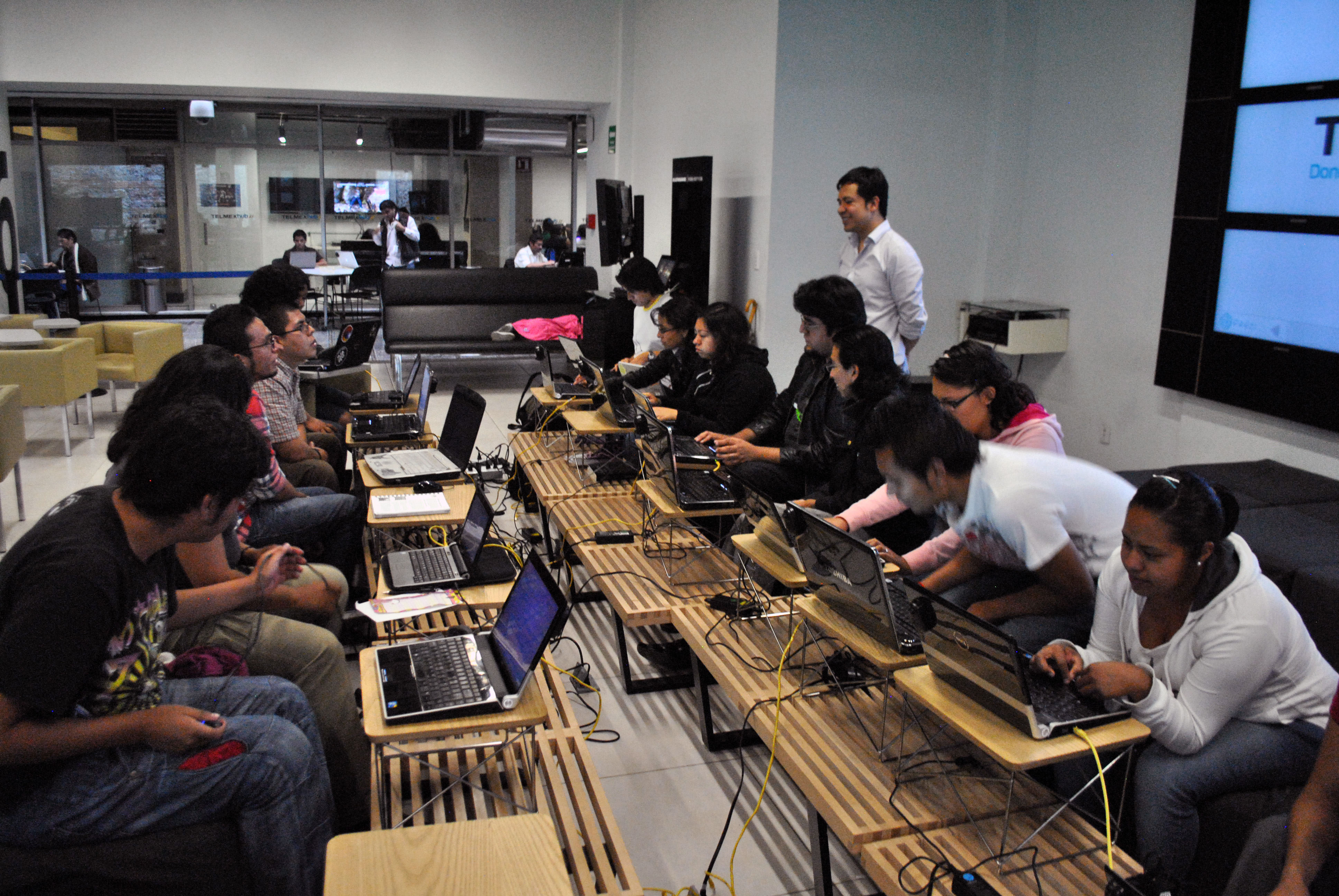 Edit-a-thon at Telmex Hub of Mexico City. July 21, 2012, organized by Wikipedia Student Clubs at UAM and UNAM.